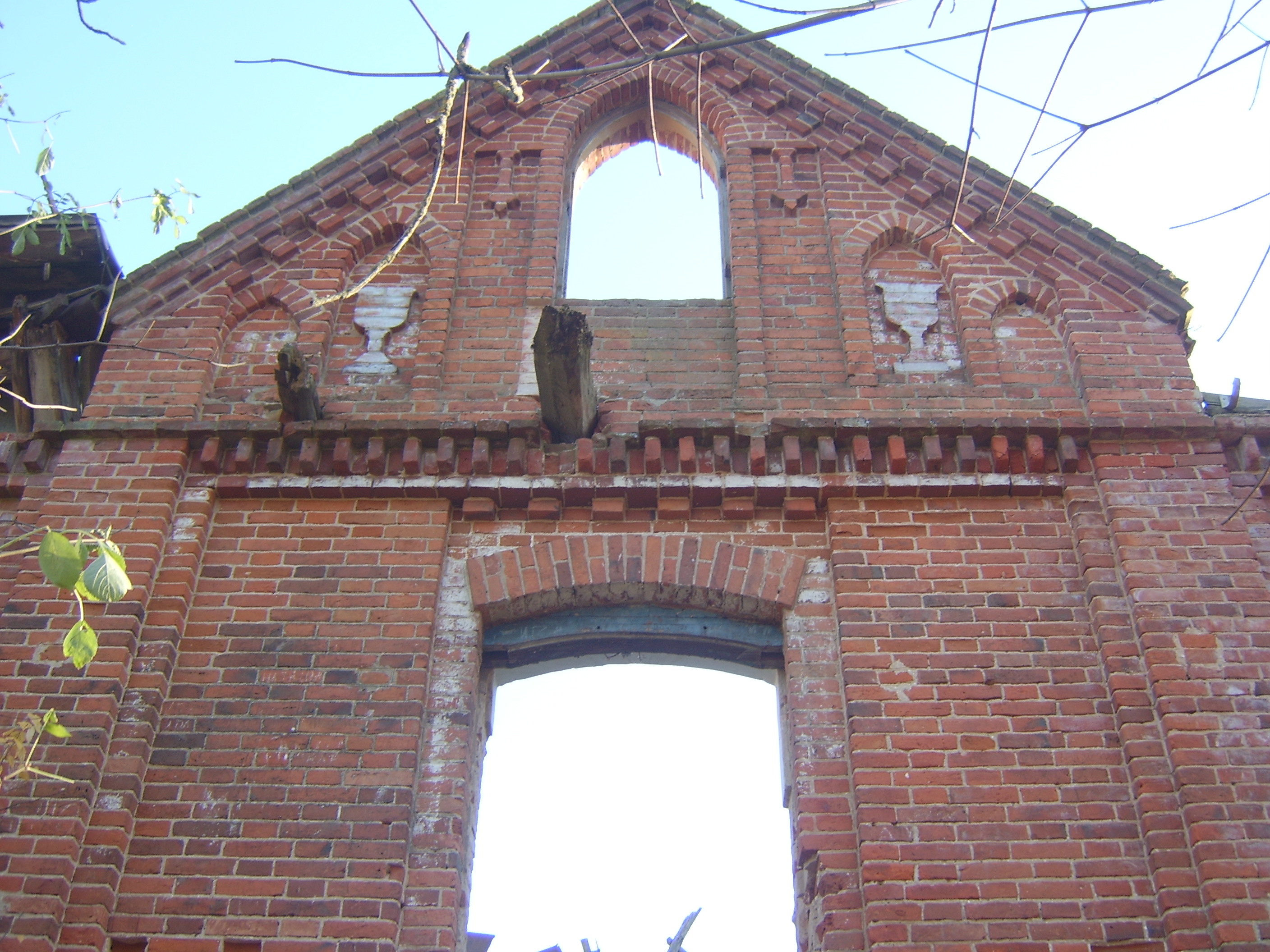 Łaškievič Estate, Stajki village, Baranavičy district